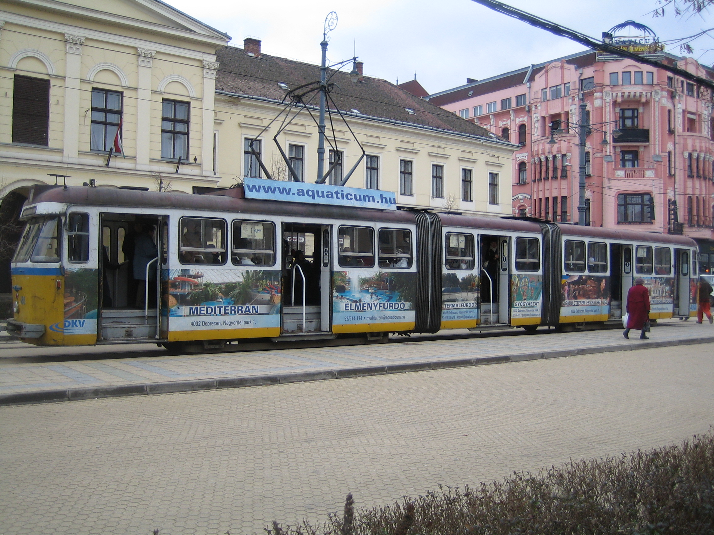 Tram in Debrecen, Hungary. This is car 488, which was built in the late 1978 by DVK.